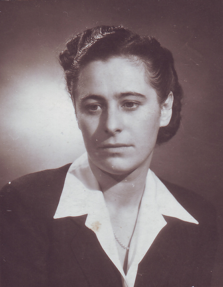 Portrait of Polish writer Zofia Chadzynska.